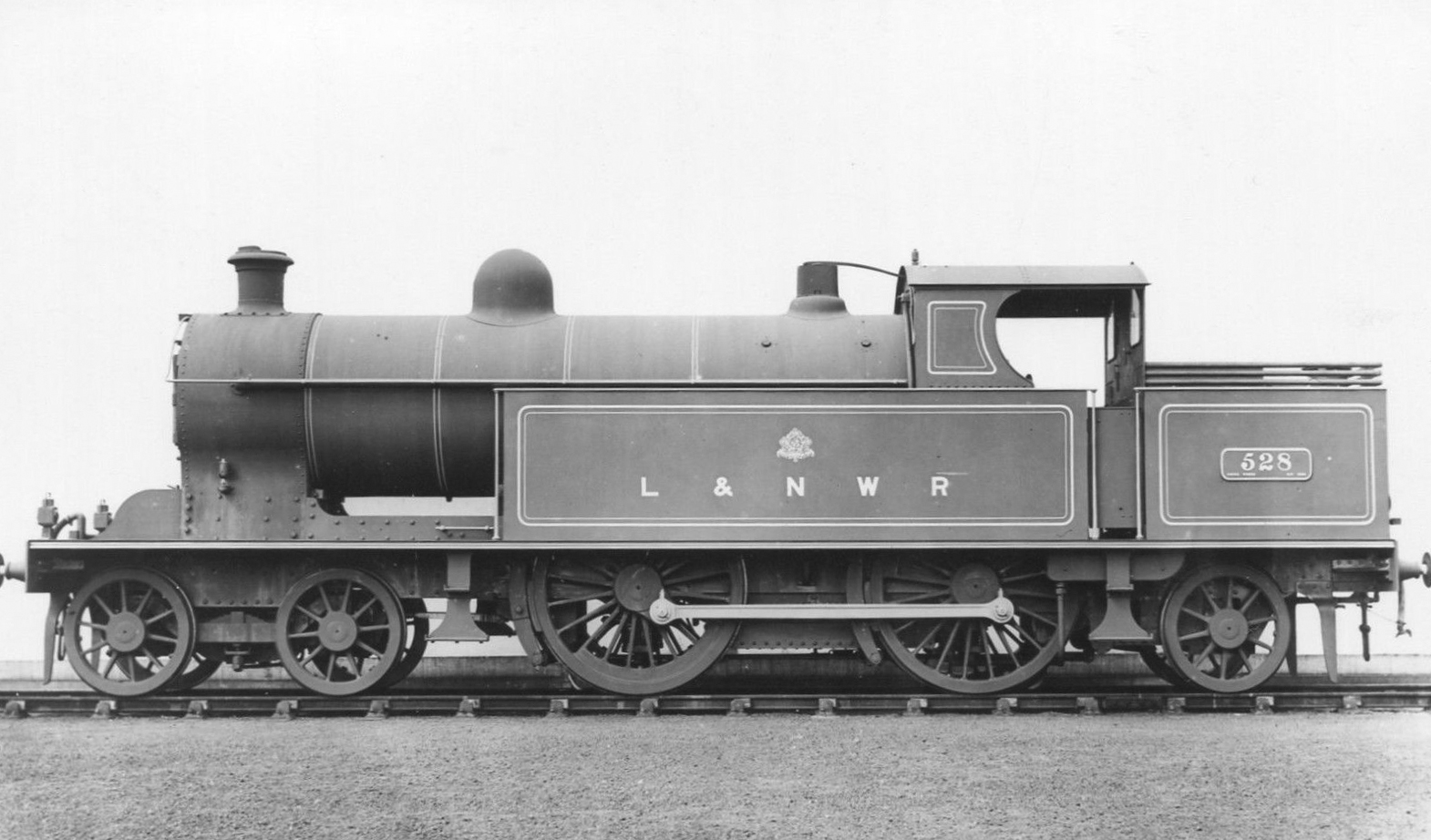 Photograph of LNWR locomotive No. 528 Precursor Tank